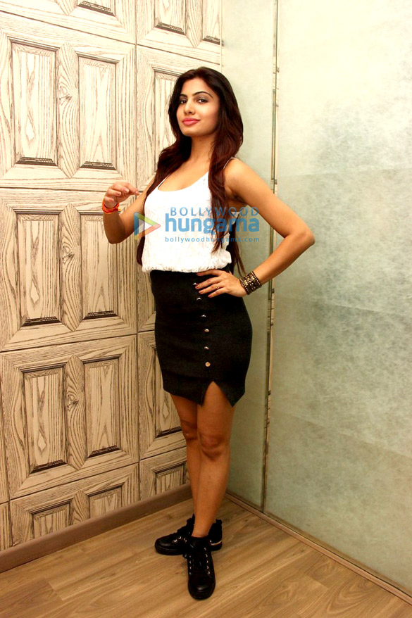 Avani Modi at Calendar Girls Media Meet 2015